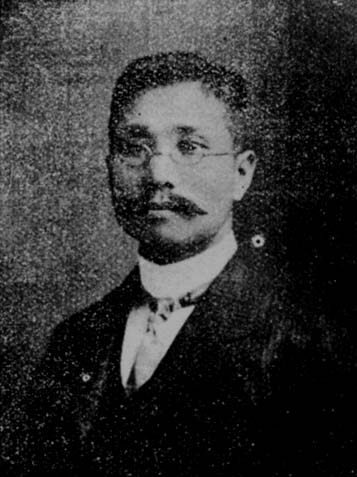 Mr. Kenjirō Fujii, dean of the Waseda University Higher Normal School.